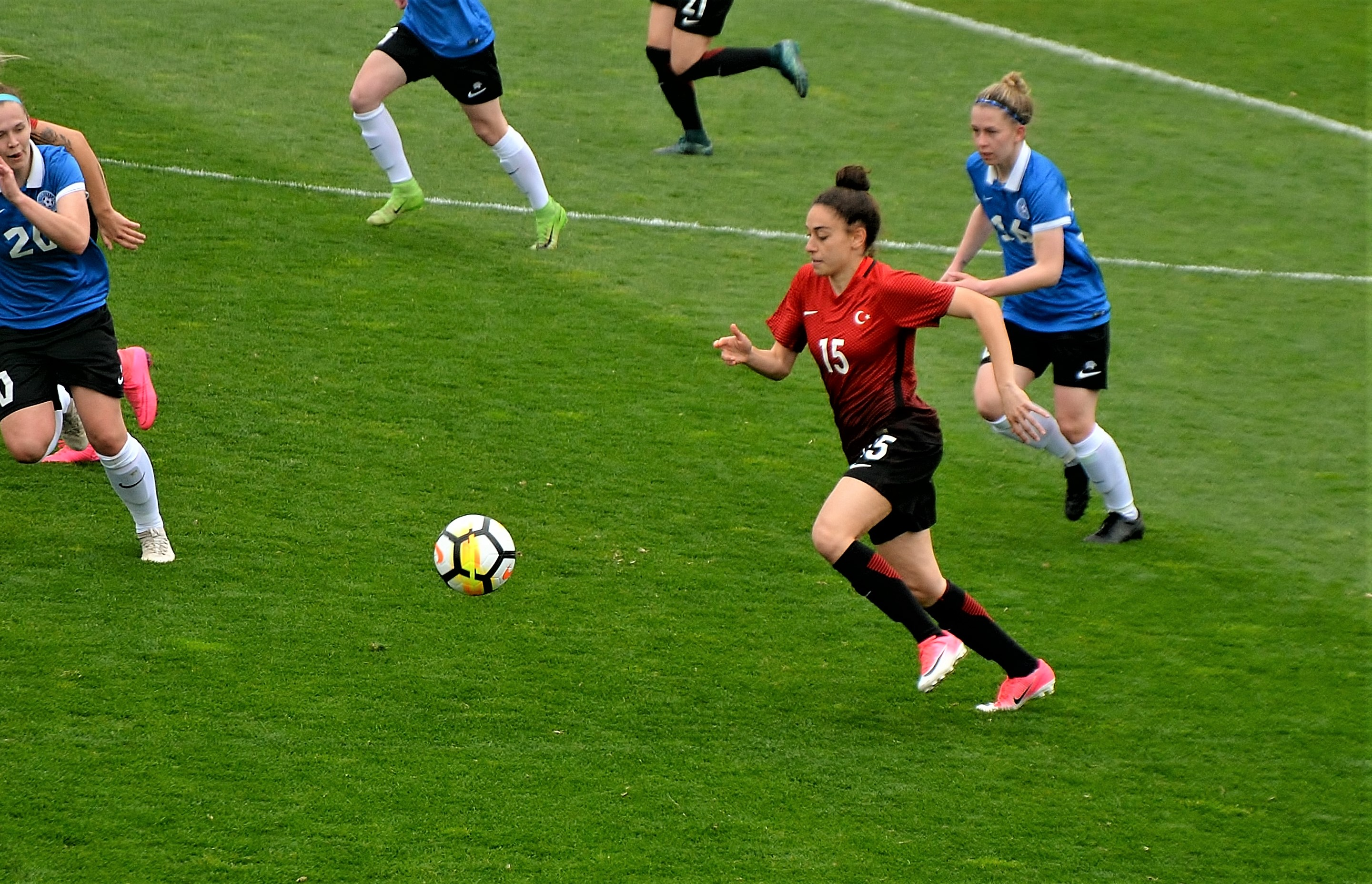 Başak Gündoğdu (red/black) playing for Turkey women's national team in the friendly home match against Estonia at TFF Riva Facility on 7 April 2018.